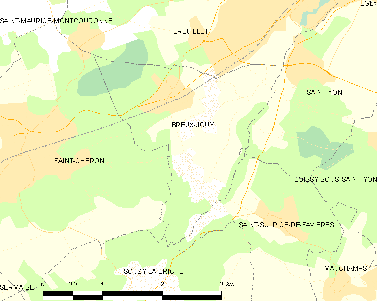 Map of French municipality Breux-Jouy